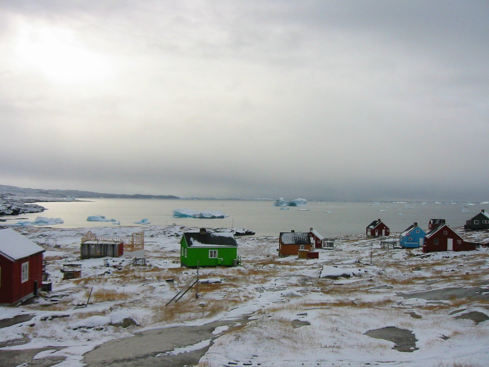 Village of Oqaatsut, Greenland